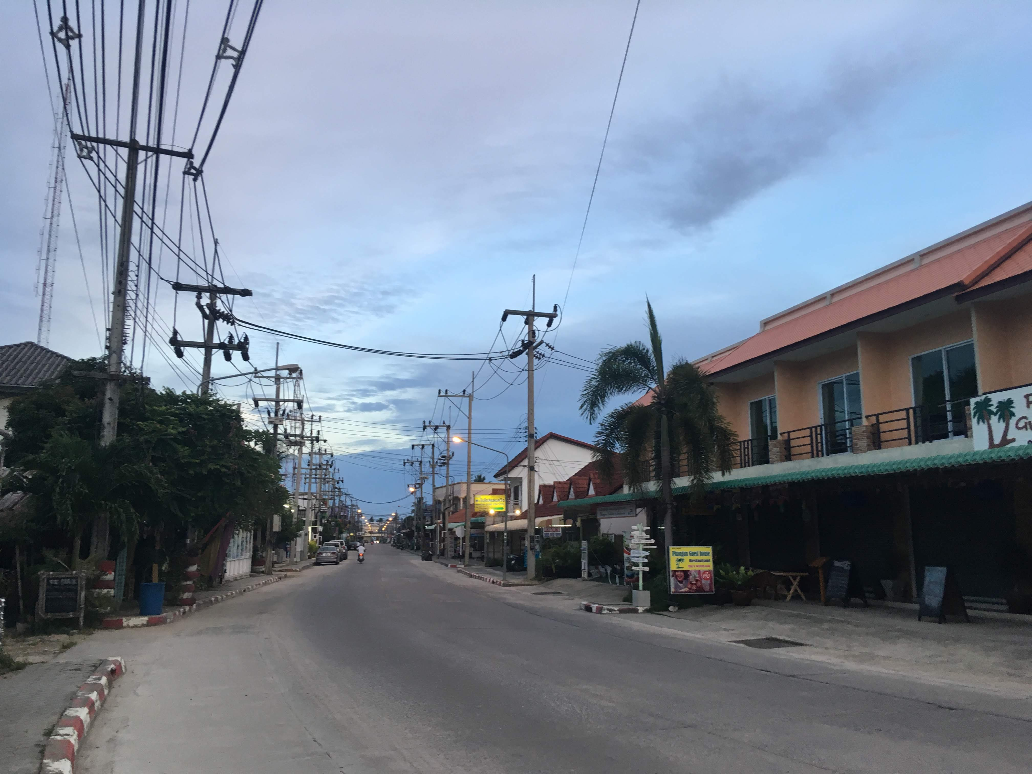 The road going to the east from the center of Thong Sala, Ko Pha Ngan.